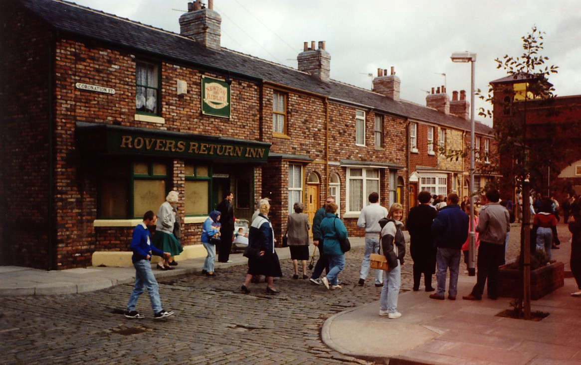 Tourists are show round the set of the ITV soap opera Coronation Street, viewing the Rovers Return Inn at Granada Studios, Manchester, England.